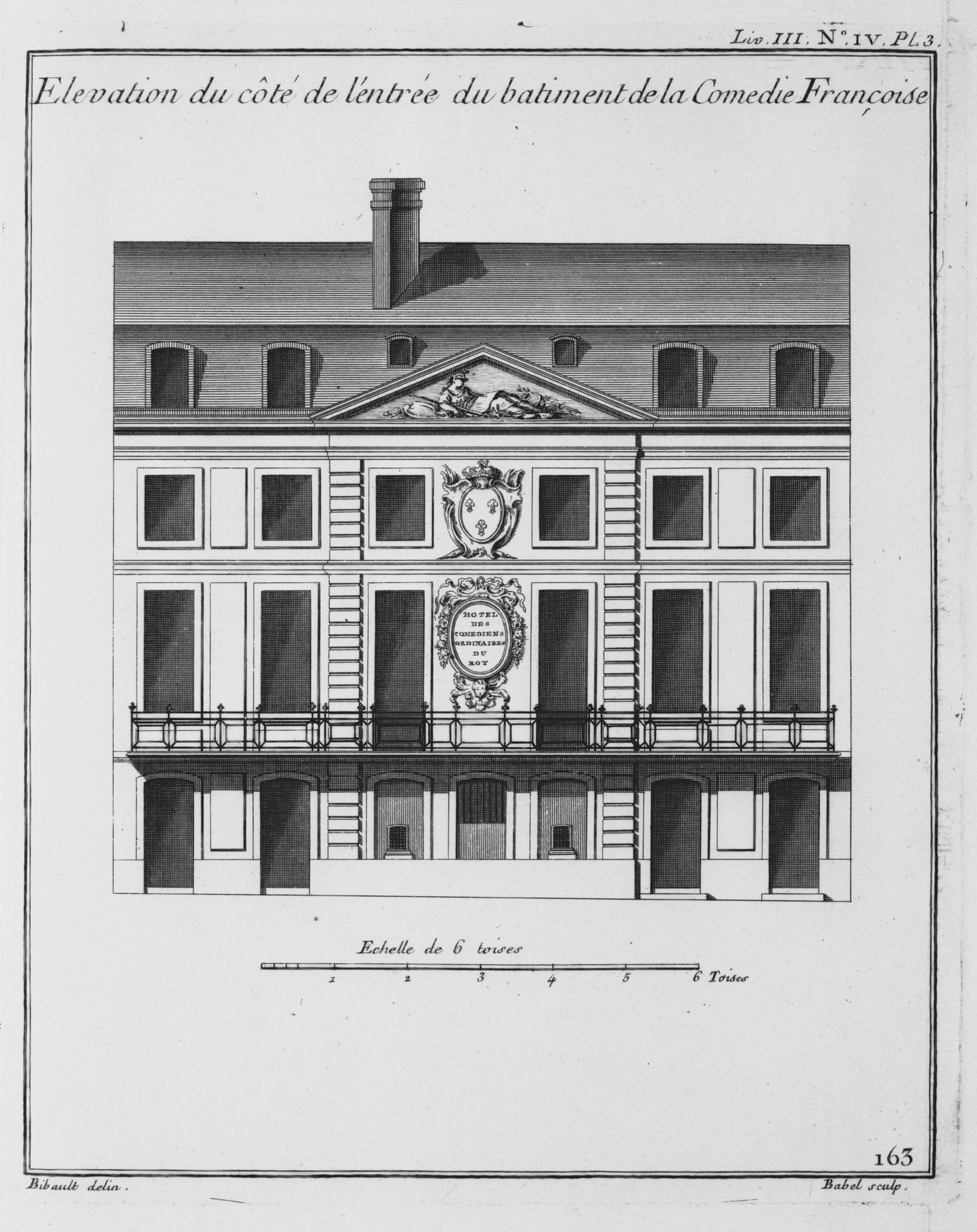 Plate 3. The Hôtel des Comédiens du Roi on the rue des Fossés Saint-Germain-des-Prés in Paris: elevation of the principal facade. From Jacques-François Blondel's Architecture françoise, Tome 2, Livre 3, Chapter 4. For Blondel's discussion of this plate (in French), see p. 34 of tome 2 (at Gallica).